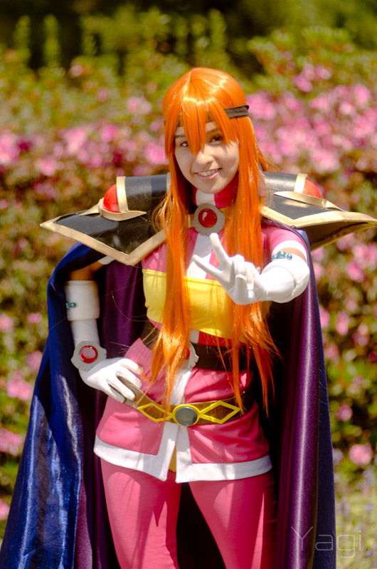 Tata as Lina Inverse from Slayers.